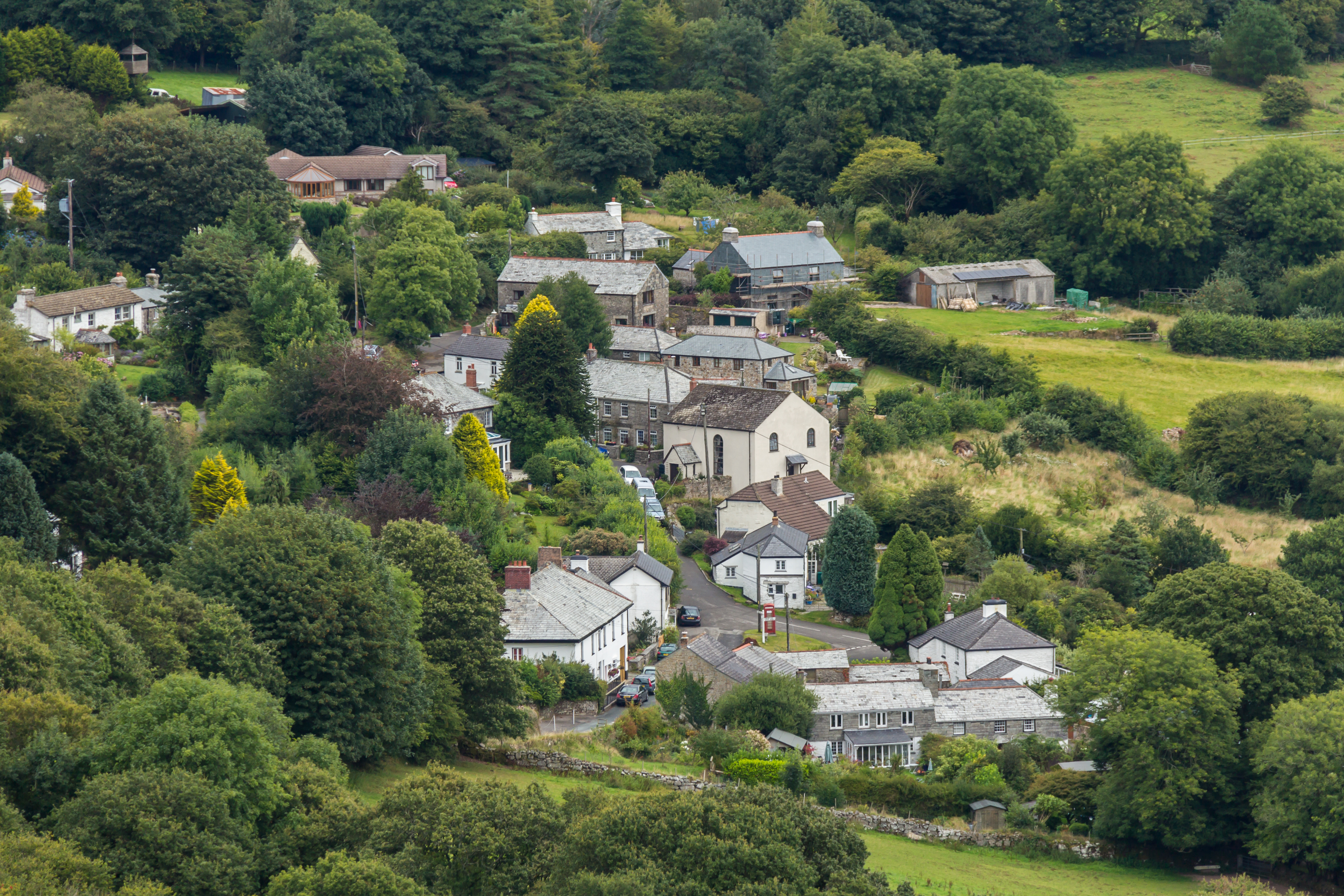 Henwood, Cornwall. Seen from Stowe's Hill